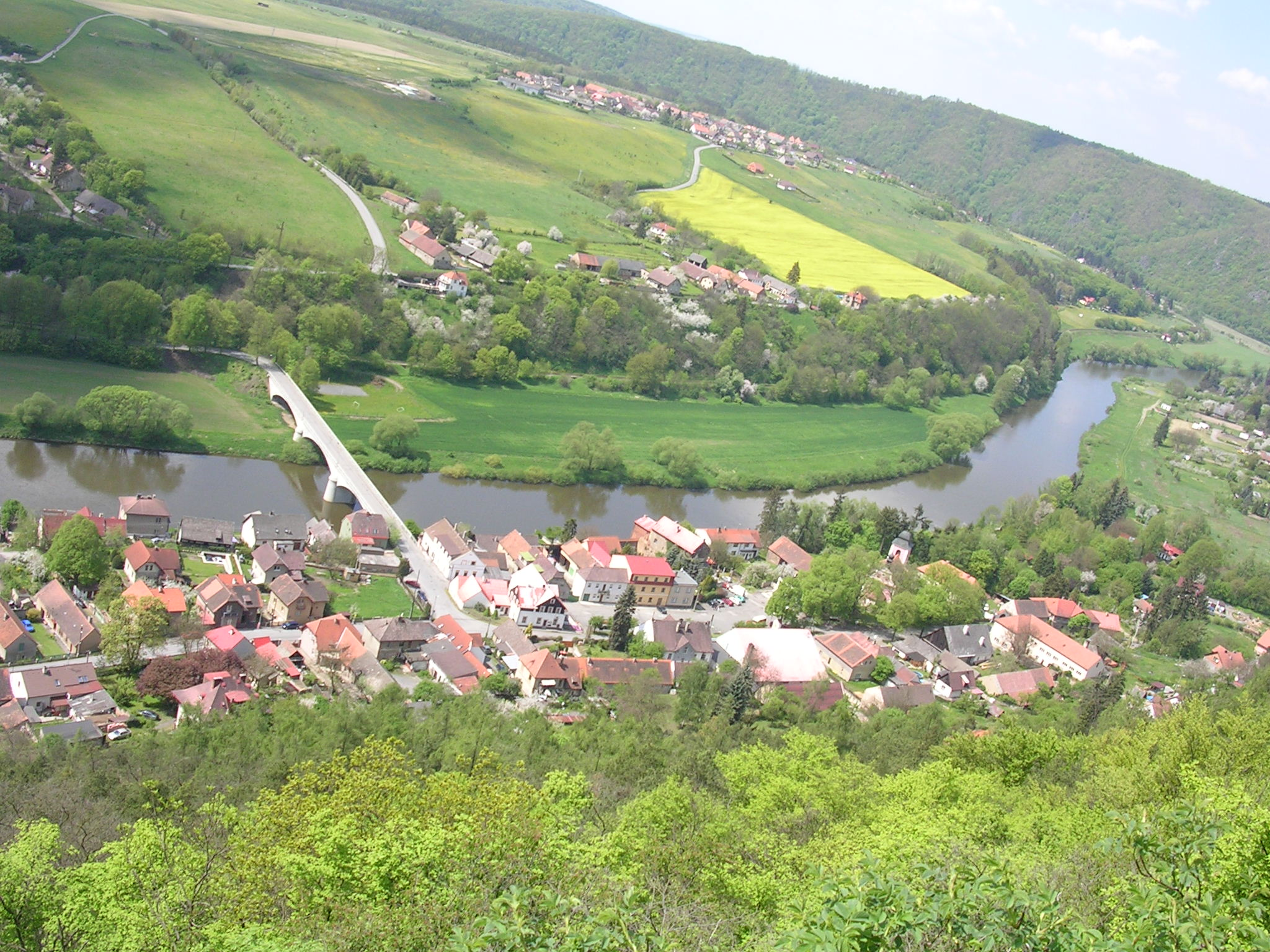 Zbečno, the Czech Republic.